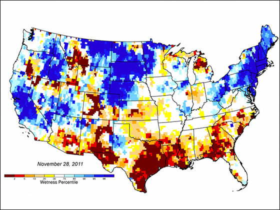 The map uses an 11-point scale where blue measures wetter than normal conditions and yellow/red drier than normal conditions